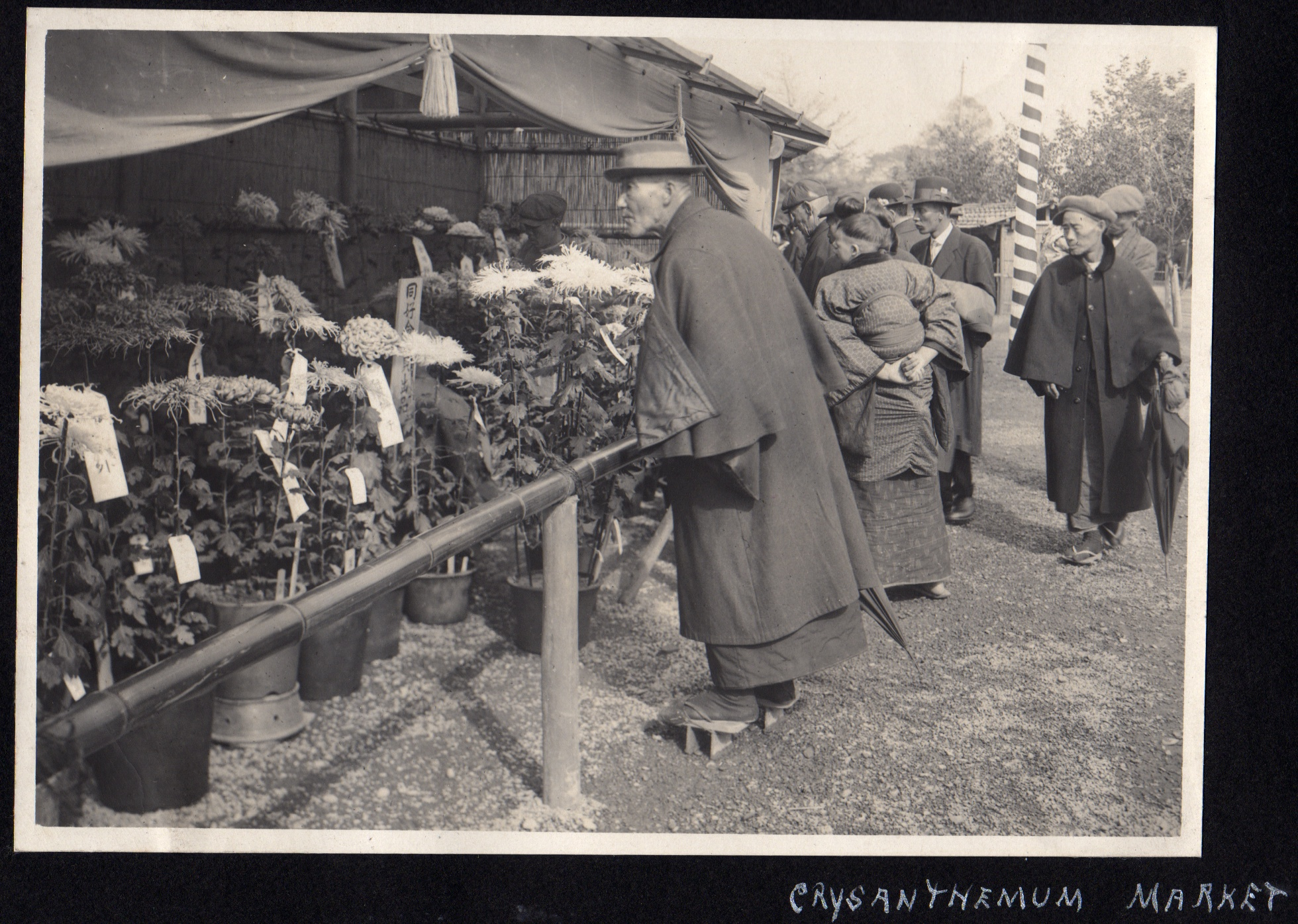 This photo is from an album Elstner Hilton compiled in Japan between 1914 and 1918. Elstner was my spouse's uncle. While Uncle Elstner was pretty good about annotating the photos that required an explanation of some sort, he did not date the pictures. So all we know is they were taken between January, 1914 and December, 1918.